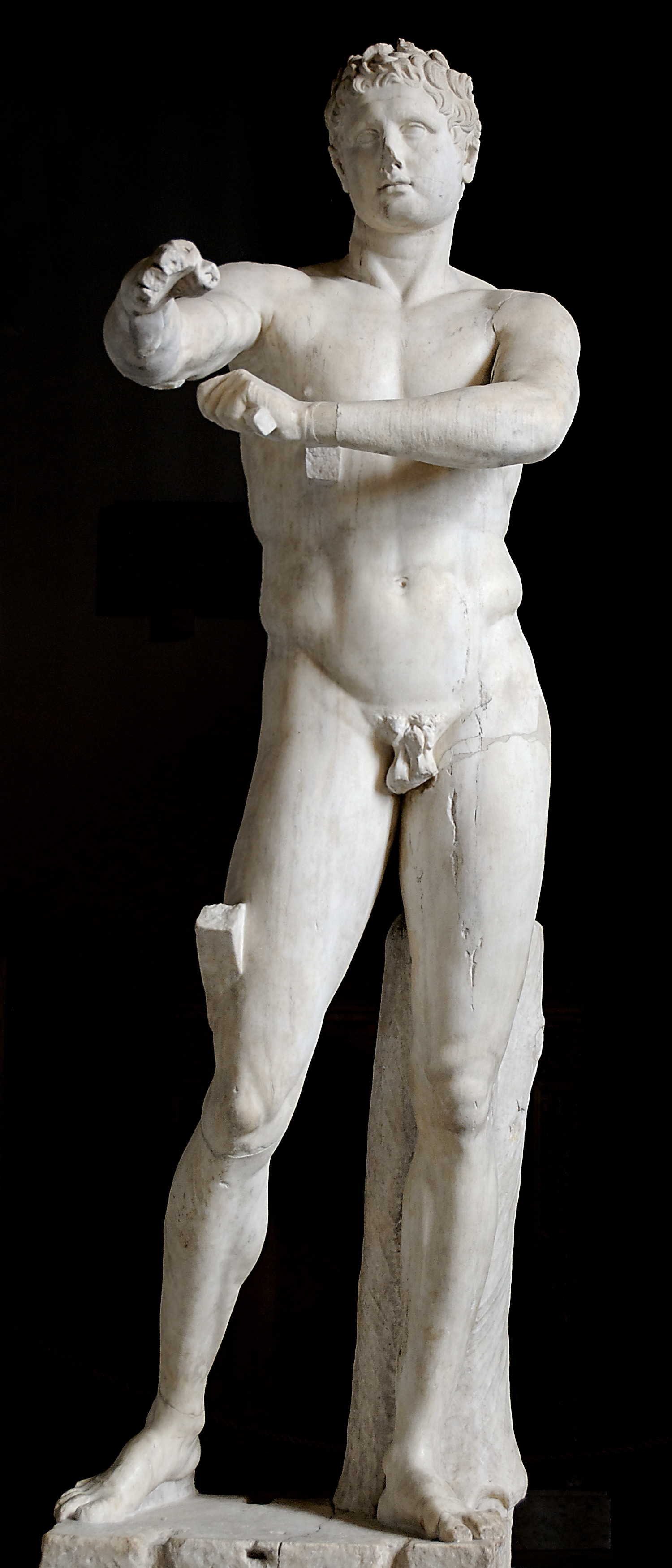 So-called “Apoxyomenos” (“the Scraper”). Marble, Roman copy of the 1st century AD after a Greek bronze original ca. 320 BC. From the Trastevere in Roma.